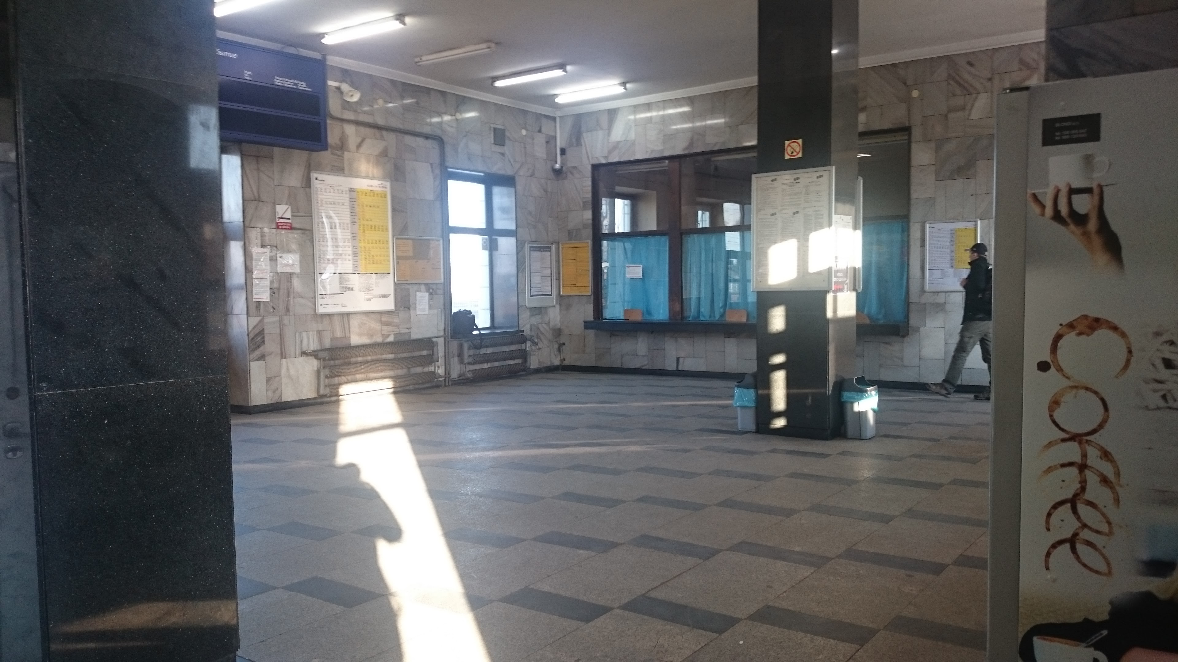 Interior of Łuków railway station.